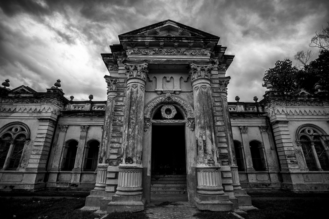 Natore Rajbari